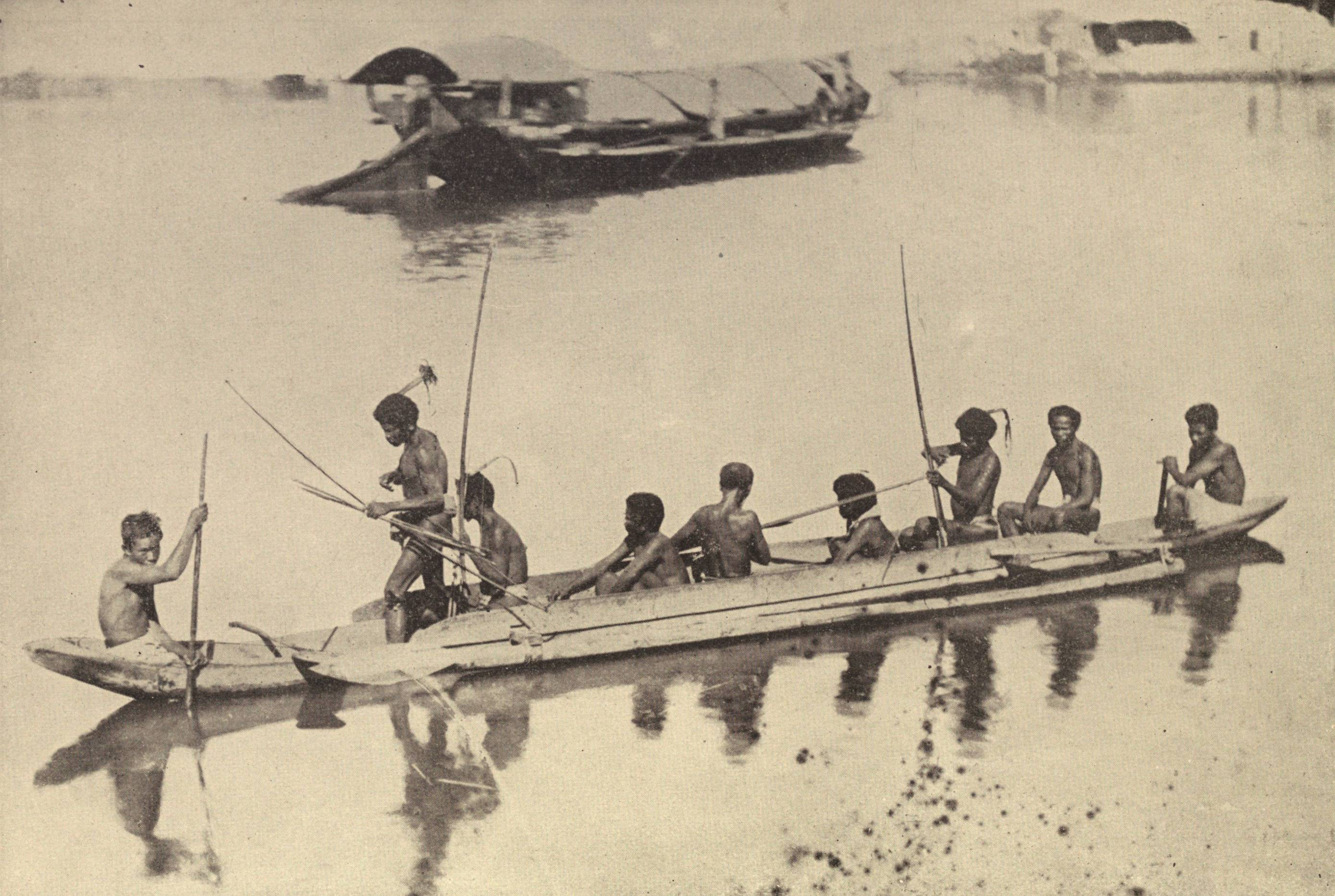 Original caption (cropped out): Native boats and outriggers Description: (cropped out): Boats of the upper type were used to land the U.S. troops at Manila. One of those in which the Astor Battery landed sank in the surf just before reaching shore. The natives carried the men ashore on their shoulders. The lower boat is a fisherman’s craft used by the Negritos, who shoot fish in the clear water with bows and arrows.